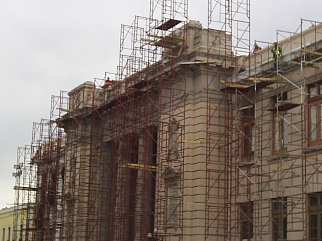 Took by me, granted to public domain